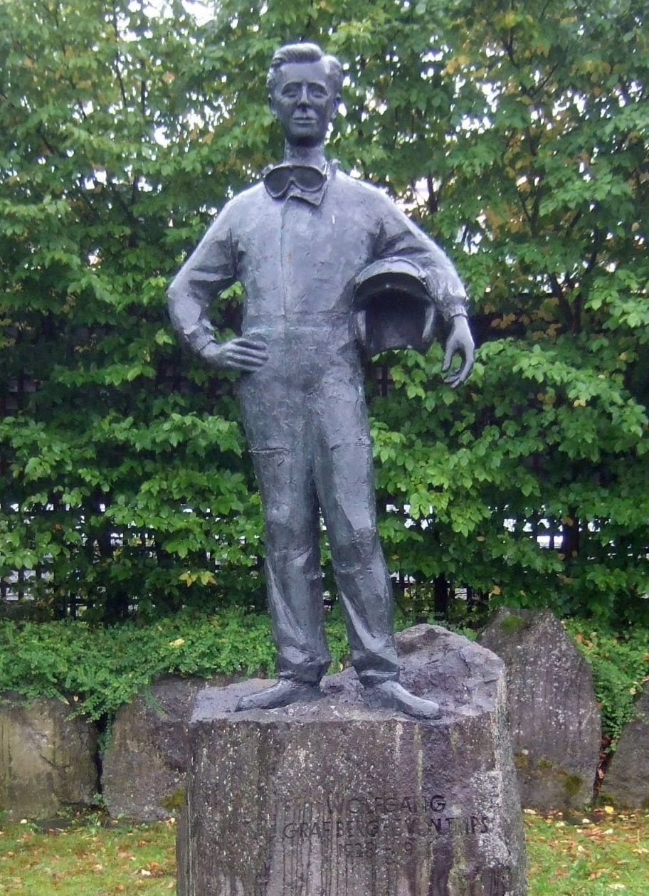 Wolfgang Graf Berghe von Trips